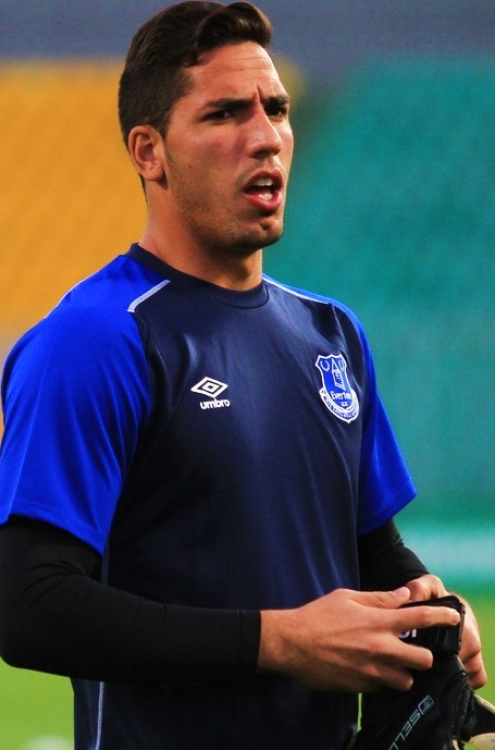 Joel Robles